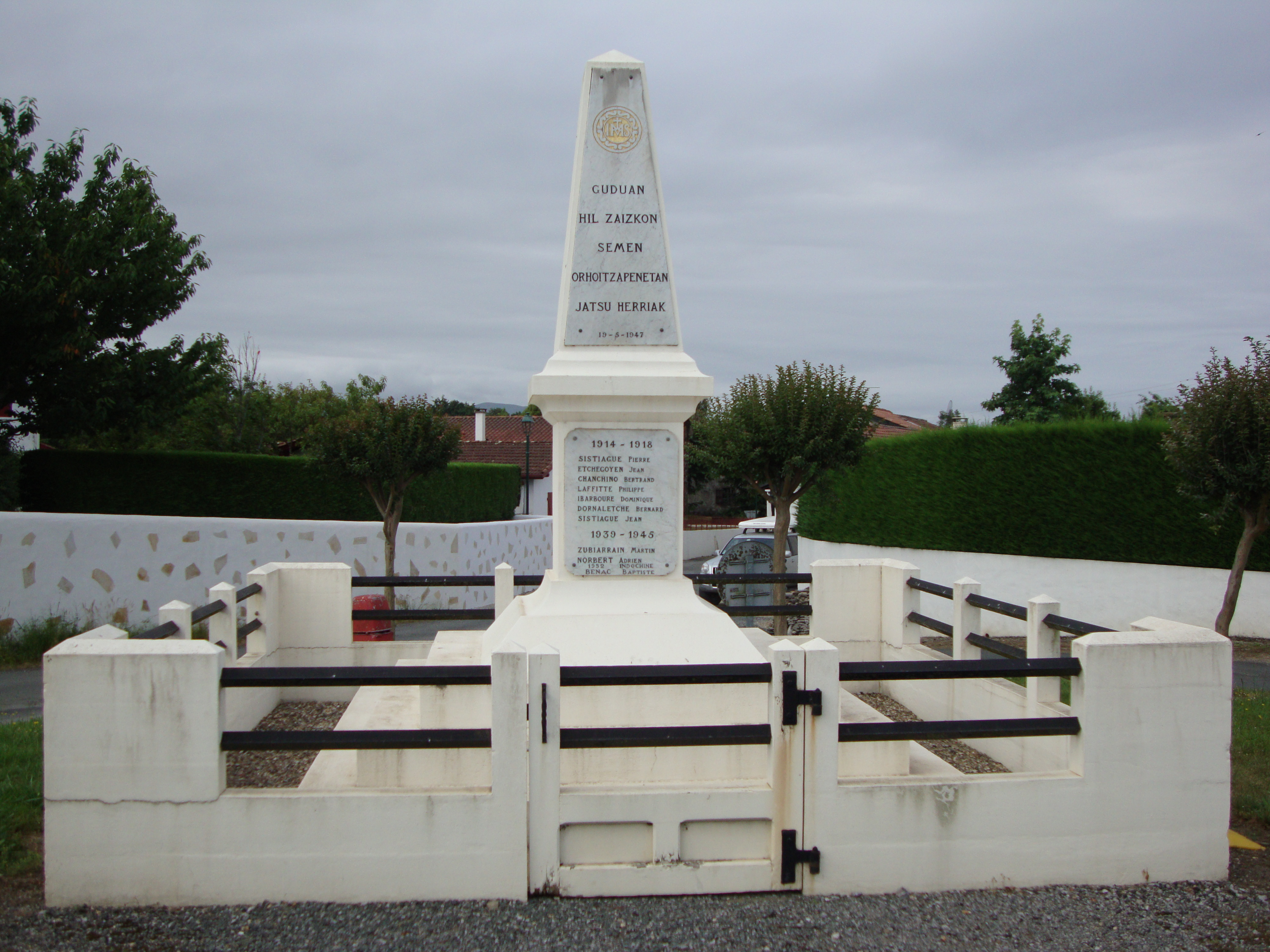 Jatxou (Pyr-Atl. Fr) war memorial